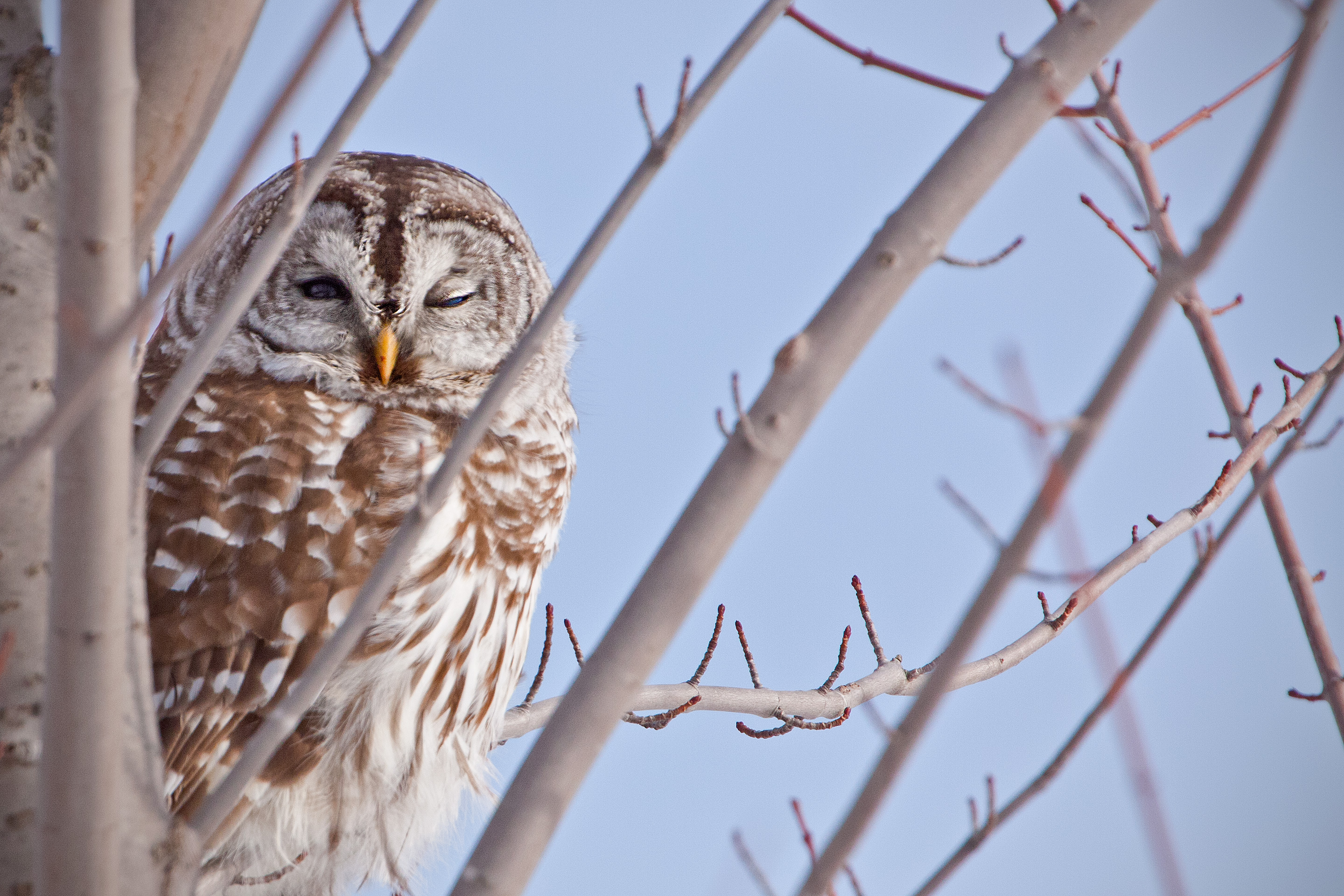 Barred Owl "winking"